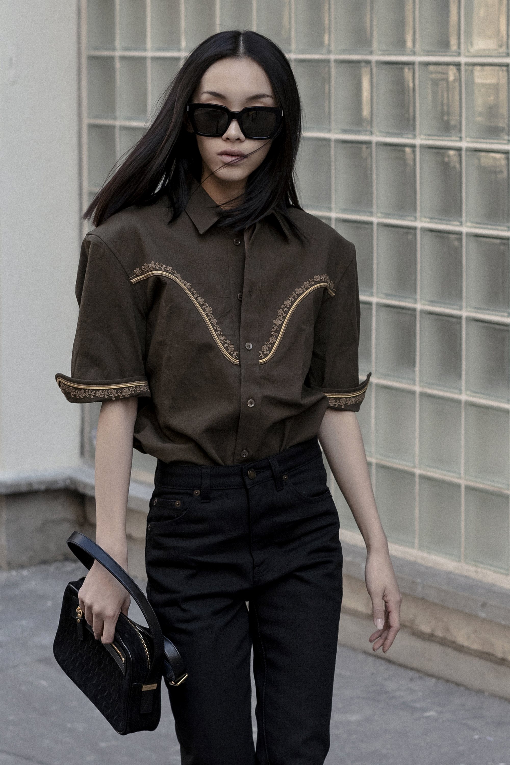 The image of artist Lexie Liu